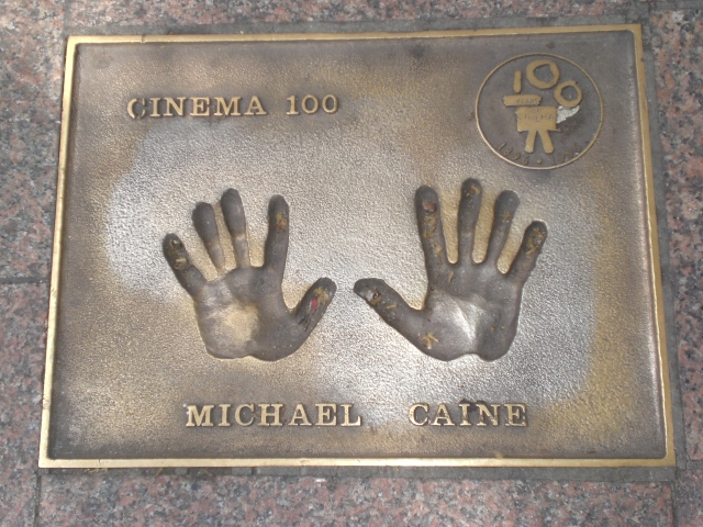 Michael Caine handprints, Leicester Square WC2 Sir Michael Caine - Michael Joseph Micklewhite, Jr (b.1933)